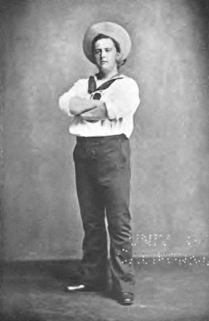 Description: Photo of Rutland Barrington as Captain Corcoran in HMS Pinafore